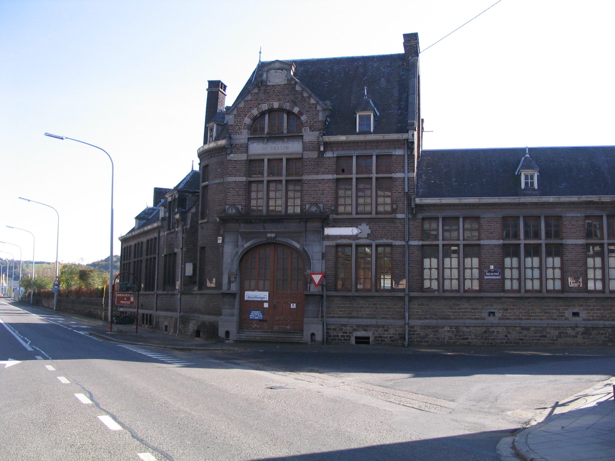 SA Metallurgique de Prayon (1904 -- zinc manufacture)